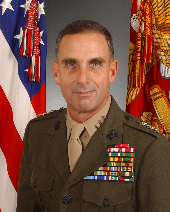 Lieutenant General Jan C. Huly, USMC.